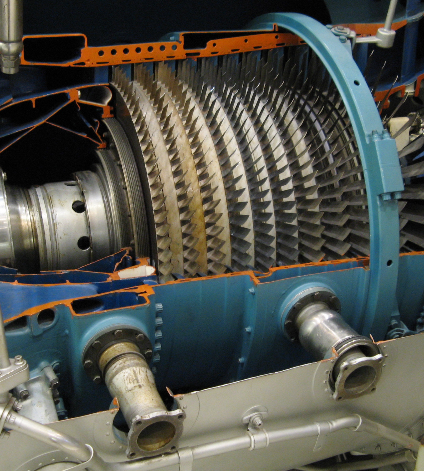 A Pratt & Whitney TF30-P-6 at the Naval Aviation Museum in Pensacola, Florida. Detail of high pressure compressor.